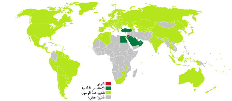 Visa policy of Jordan